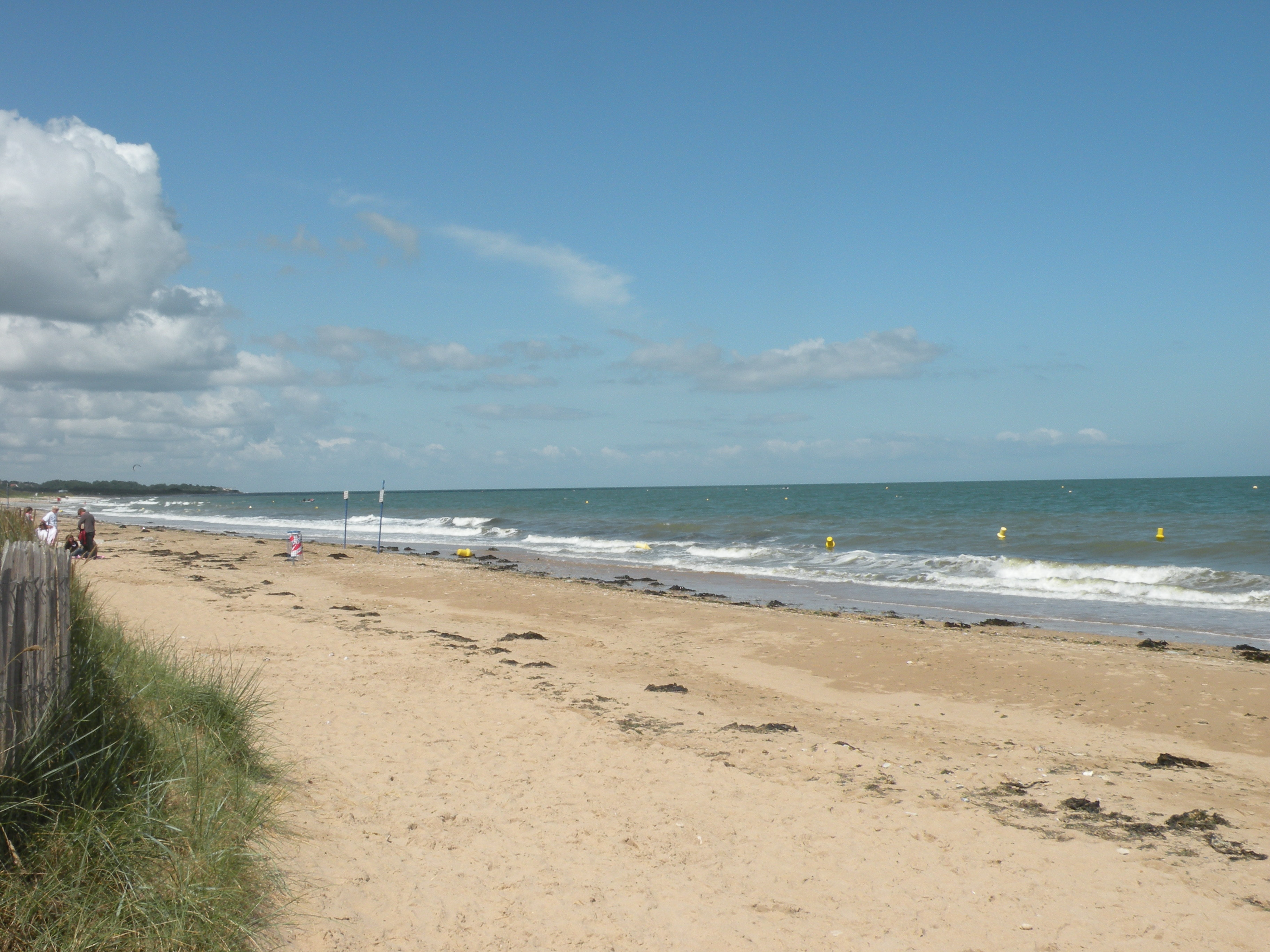 Juno Beach in Courseulles-sur-Mer.